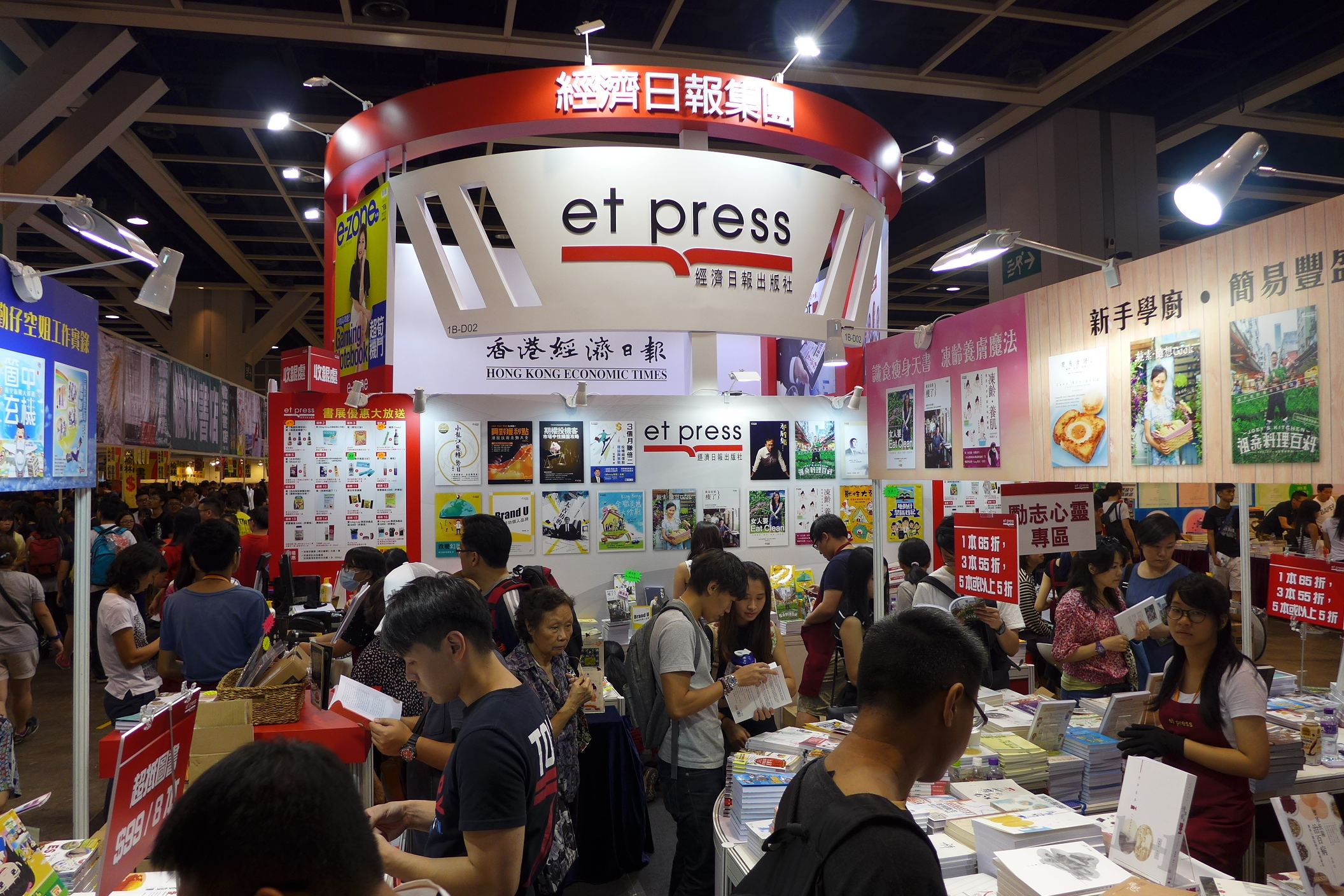 Et press in HK Book Fair 2016